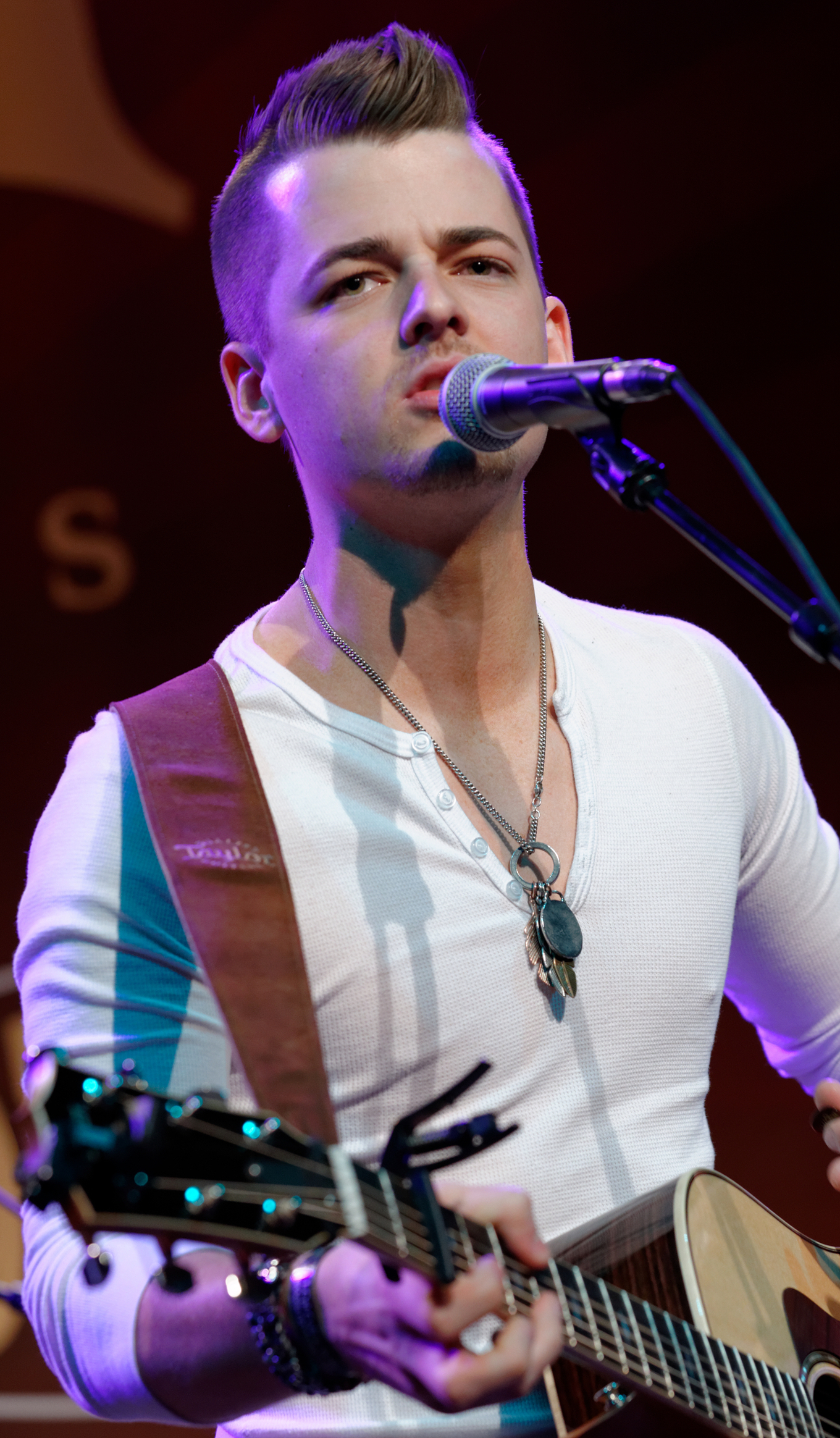 Chase Bryant performing live in the Taylor Guitars showroom, at the Winter NAMM Show in Anaheim California on Thursday January 22nd, 2015.